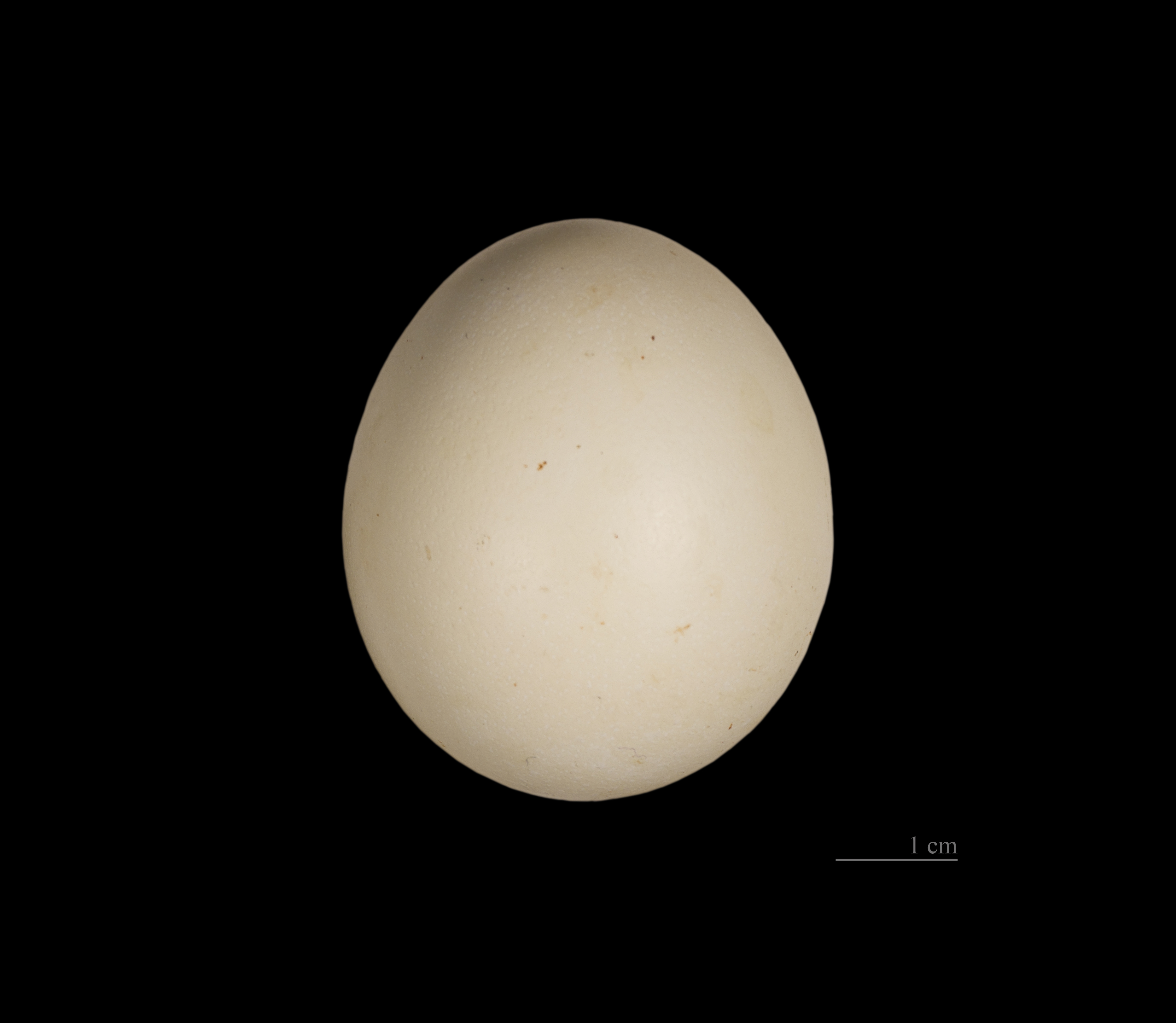 Egg of Siamese Fireback. Collection of Jacques Perrin de Brichambaut Locality: Jardin des Plantes Paris France